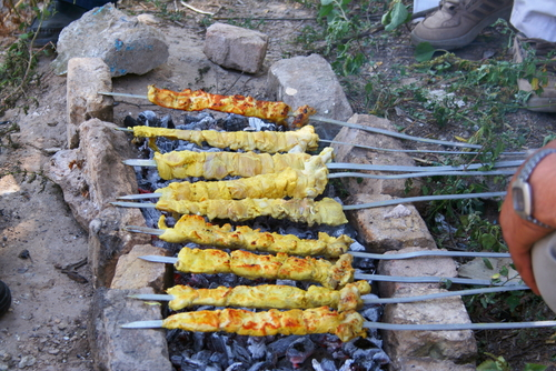 Jooje_Kebab (means:Roast chicken) in iran.